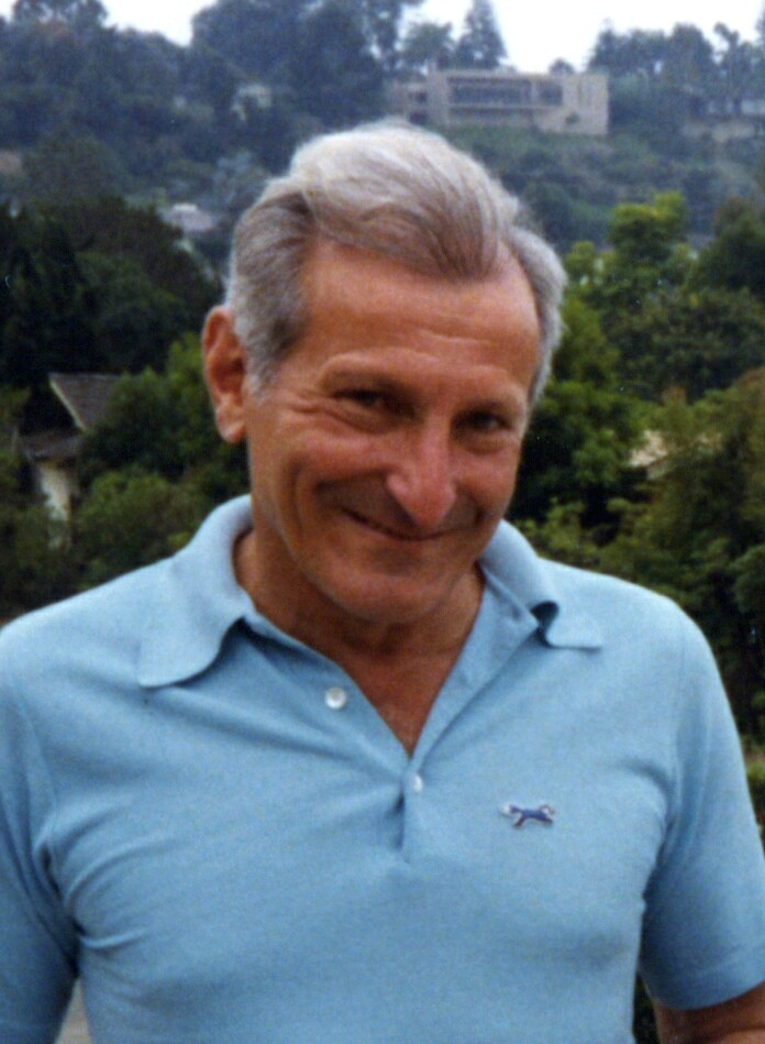 physicist Harold Lewis in 1980 photo